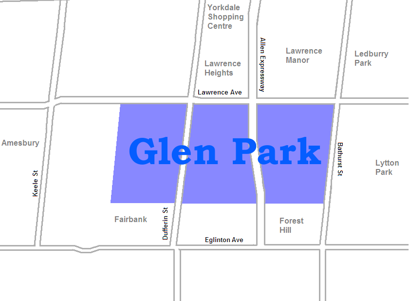 map of Glen Park, Toronto